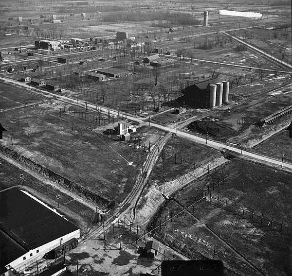 Lake Ontario Ordnance Works, looking northeast from Pletcher Road